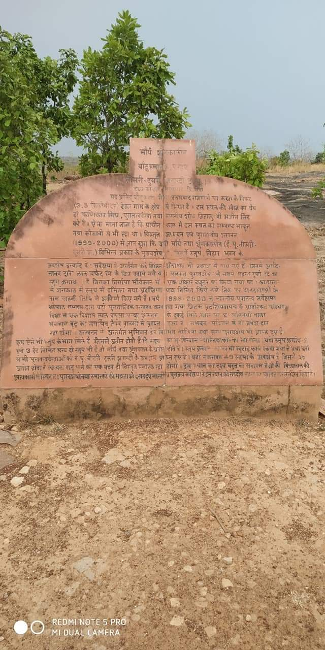 This image described information about stup deur kothar